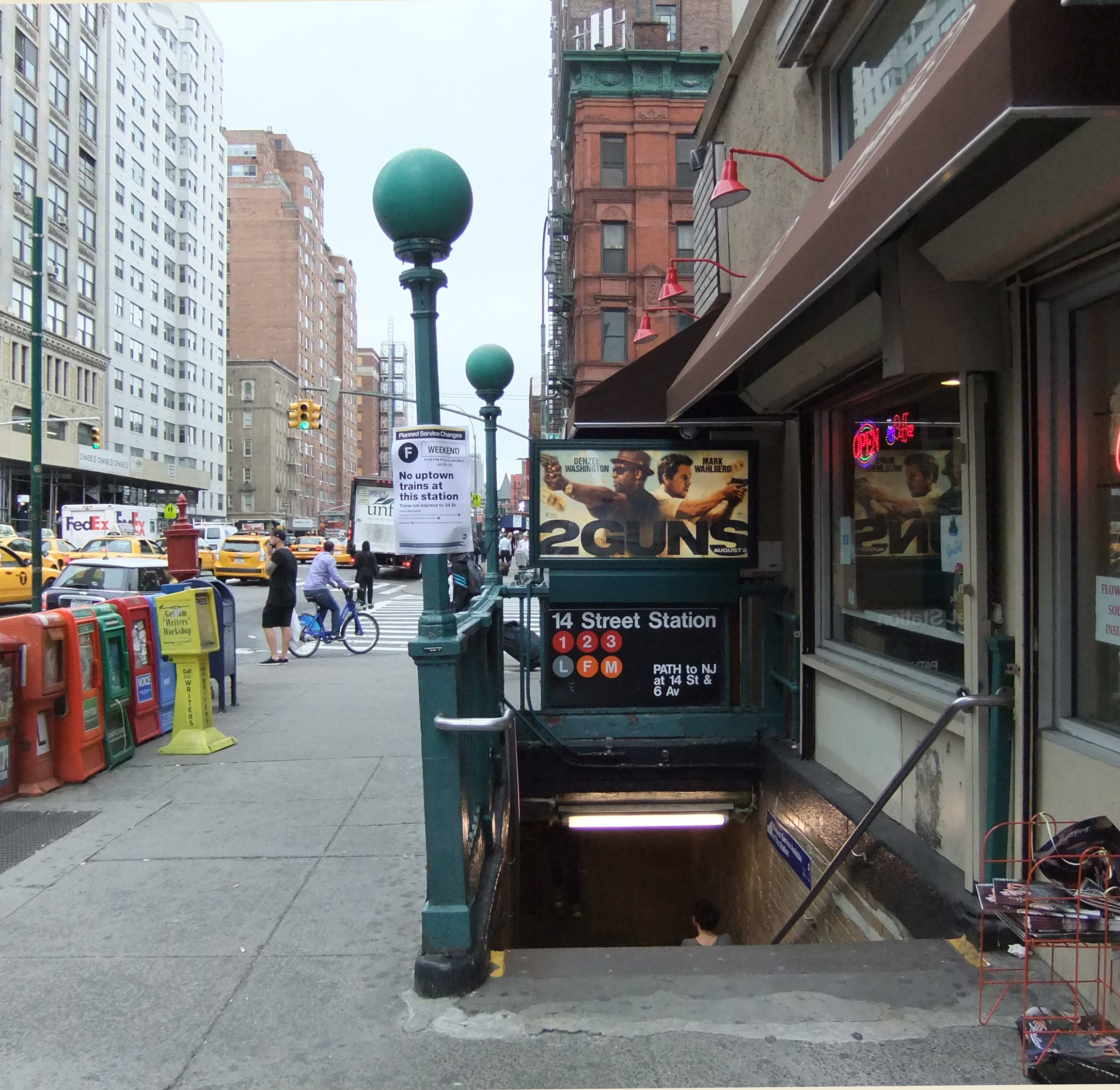 Stairs at 14th Street and 7th Avenue to the IRT platform, and passageway to the BMT/IND platforms.